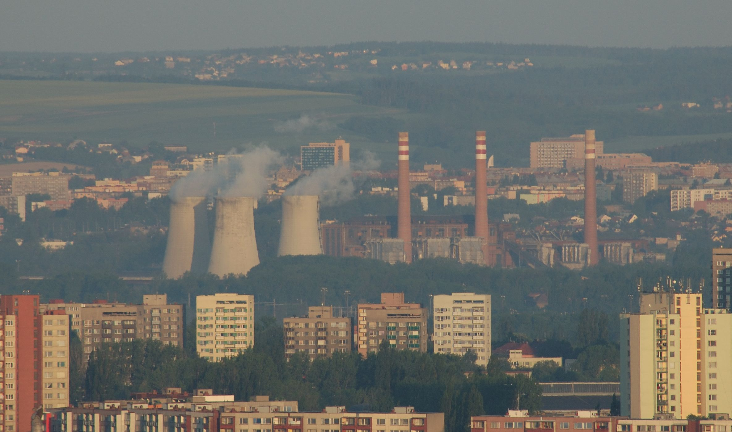 Třebovice power plant, Ostrava, Czech Republic